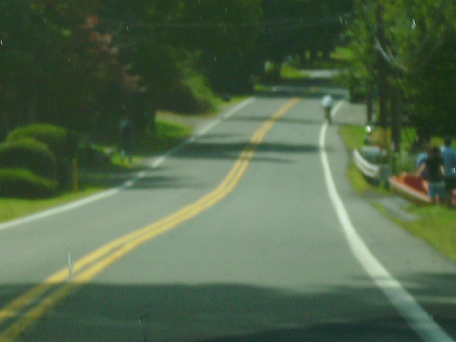 Luzerne County State Route 1415 heading southbound along the shoreline of Harveys Lake, Pennsylvania.